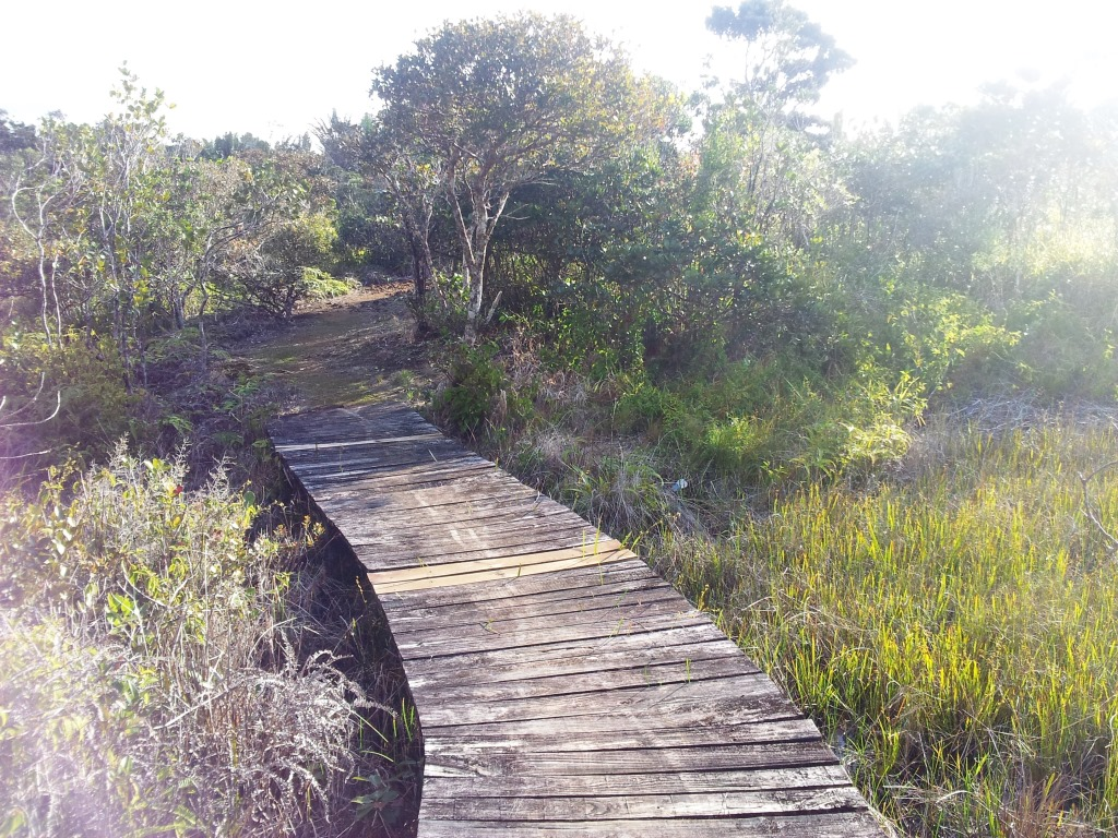 MonVert Nature Walk - Wetlands and walkway